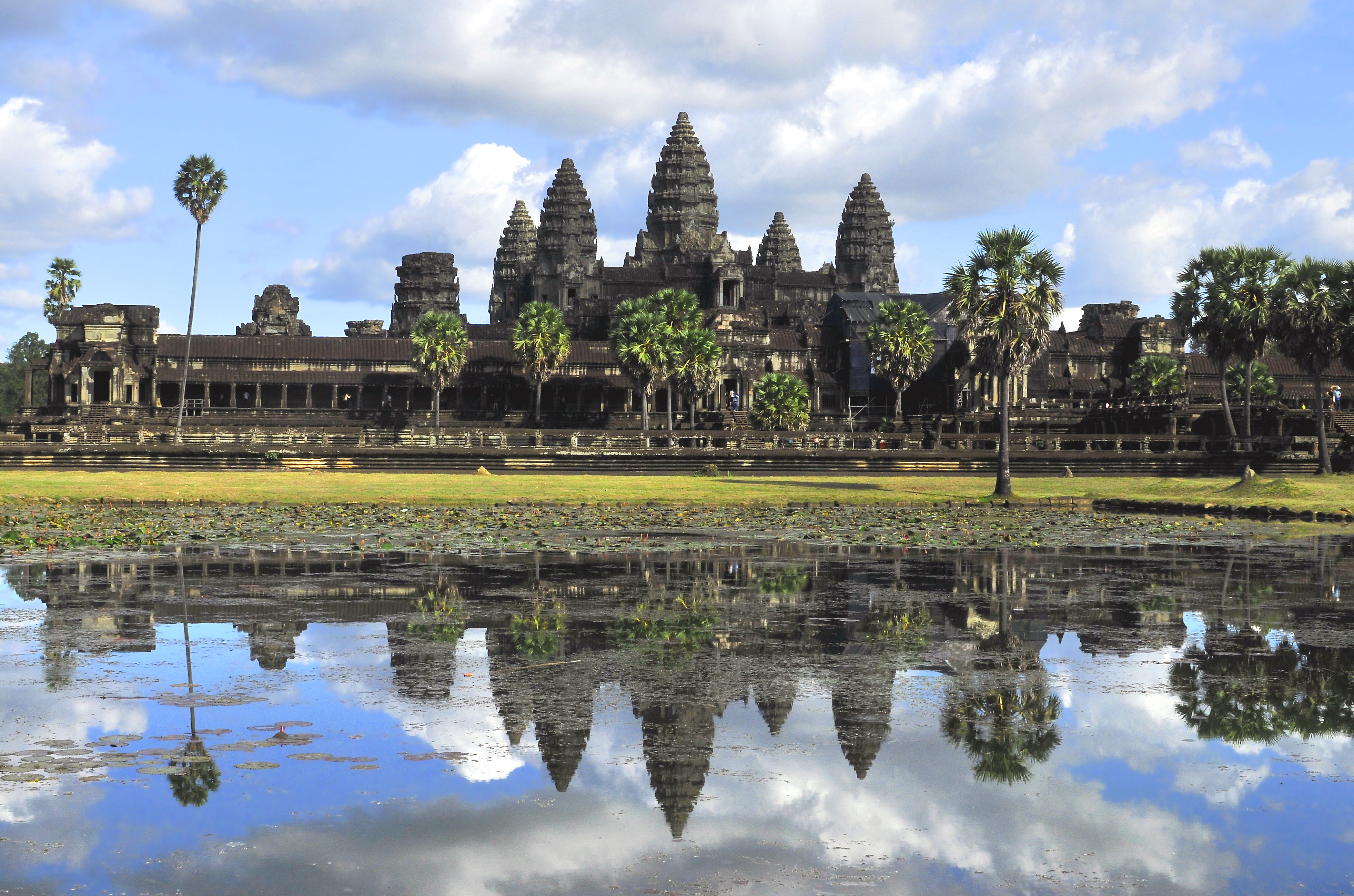 Main temple [Bakan], reflected on the northern reflection pond of Angkor Wat. Siem Reap, Cambodia